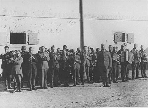 Prisoners in the Janowska concentration camp orchestra, which performed as workers were taken to and from forced labor. West Ukraine, between 1941 and 1943. Janowska camp was located at Janowska (now Shevchenka) street in Lviv, west Ukraine.